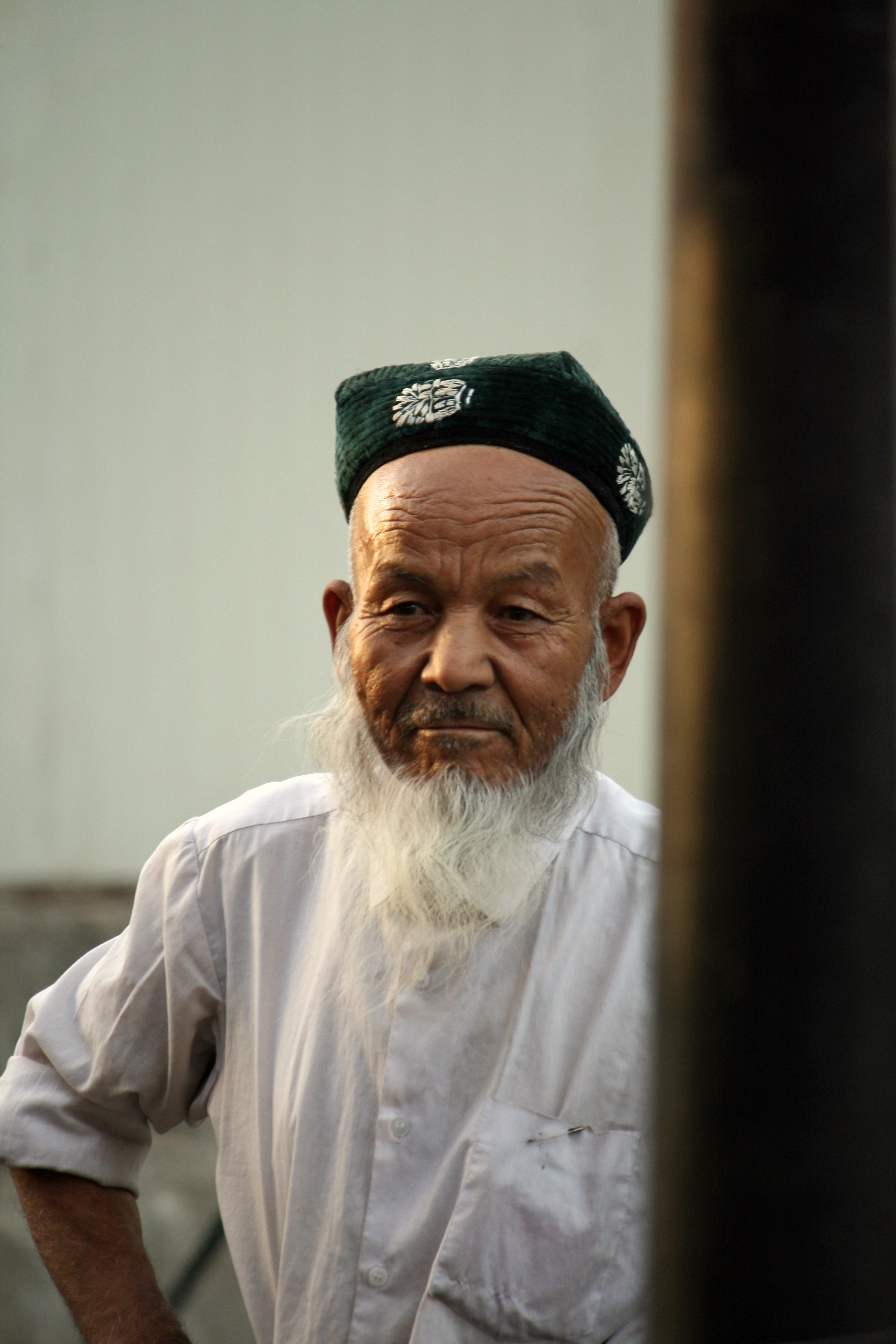 A Uyghur man. You can tell by the square-shaped hat he’s wearing. / 维吾尔族男士。